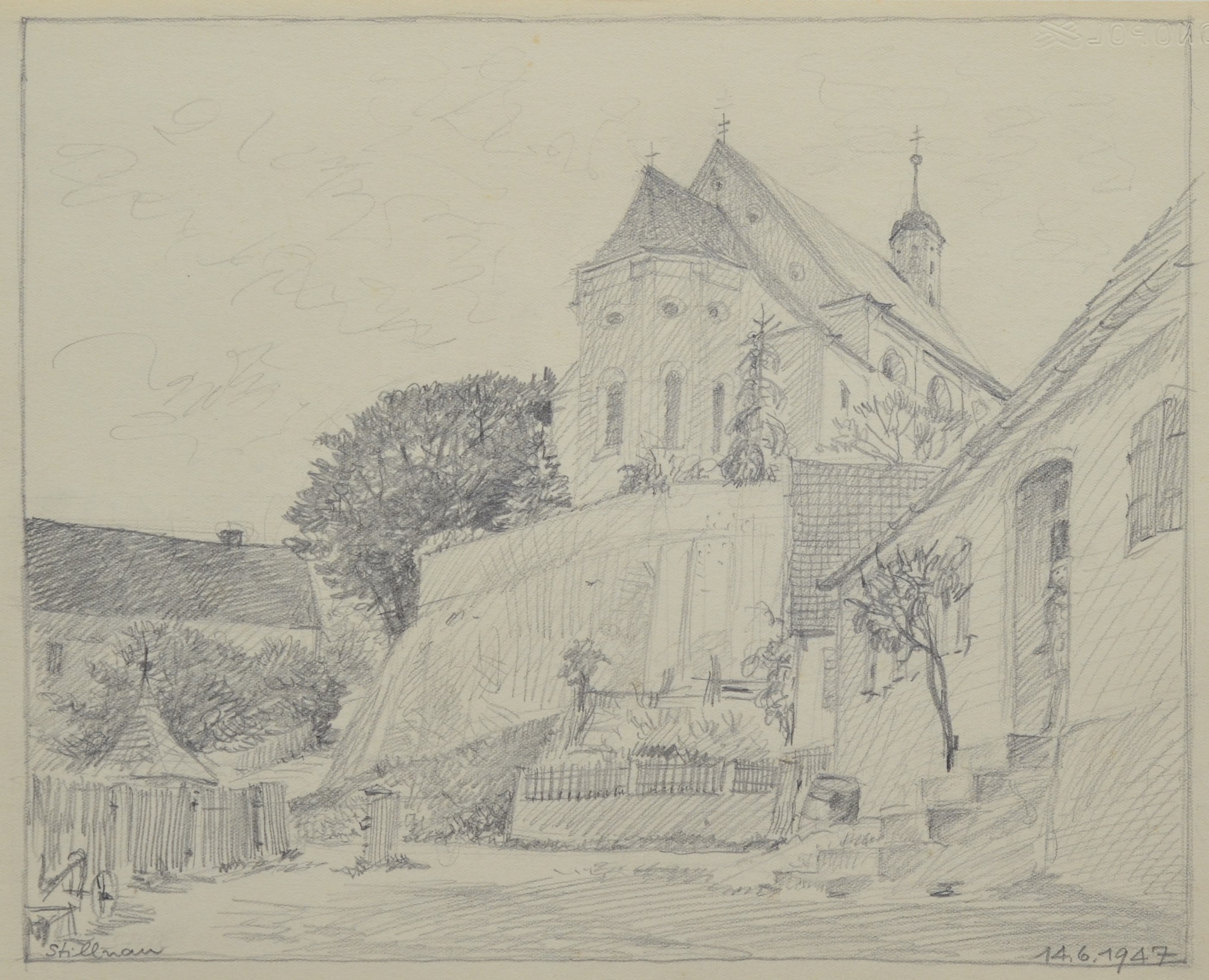 Stillnau, Bissingen, 1947, drawing by architect Walter Kittel